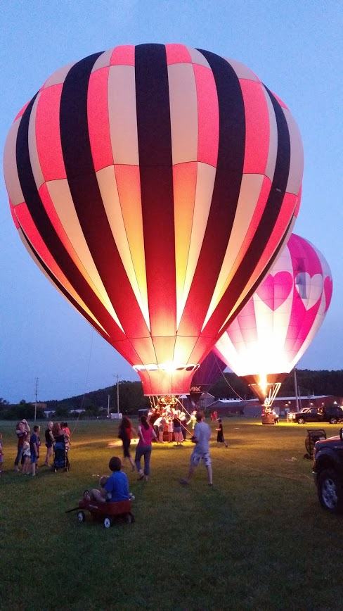 Hot Air Baloons, Wellsville, NY